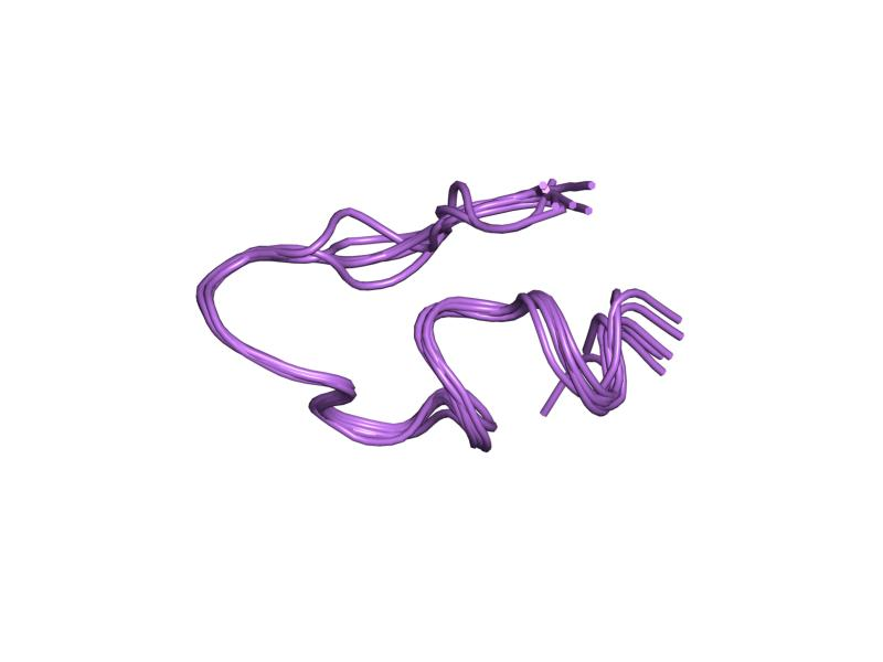 Cartoon representation of the molecular structure of protein registered with 2bbp code.